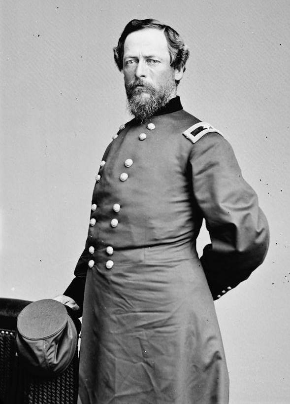 Major General Samuel K. Zook of 6th New York Infantry Regiment and 57th New York Infantry Regiment in uniform.